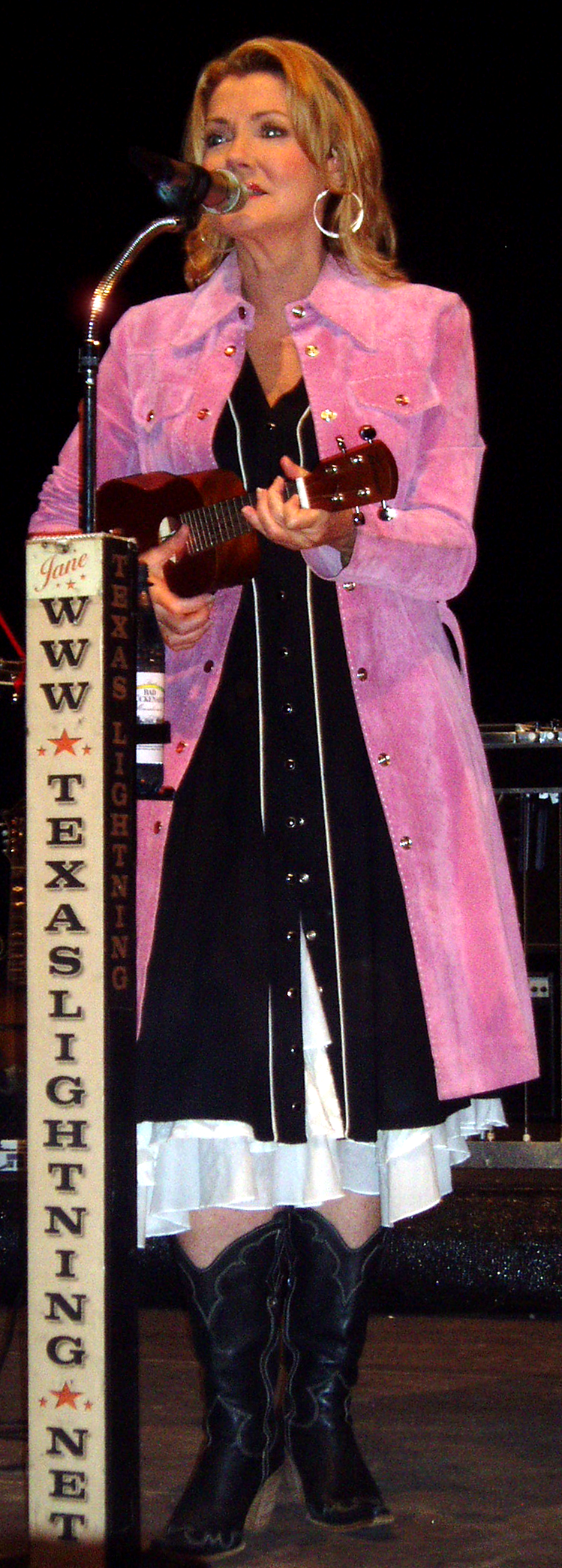 Jane Comerford as lead singer of German country band Texas Lightning on 29th September 2007 in the Autostadt, Wolfsburg, Germany.